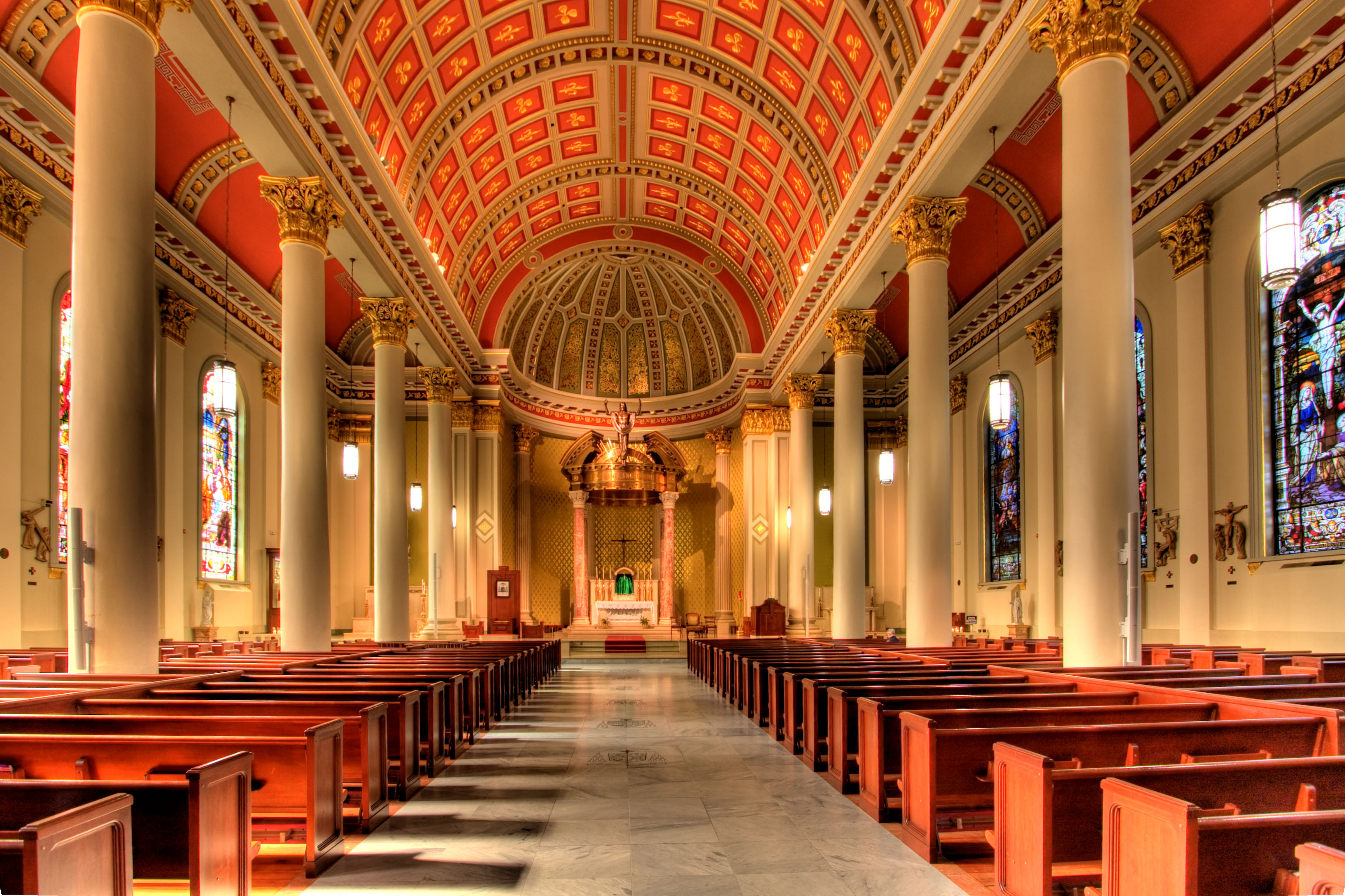 A view from inside the cathedral on 15 January 2009